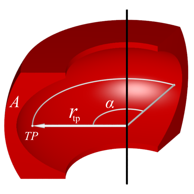 Illustration, Guldin